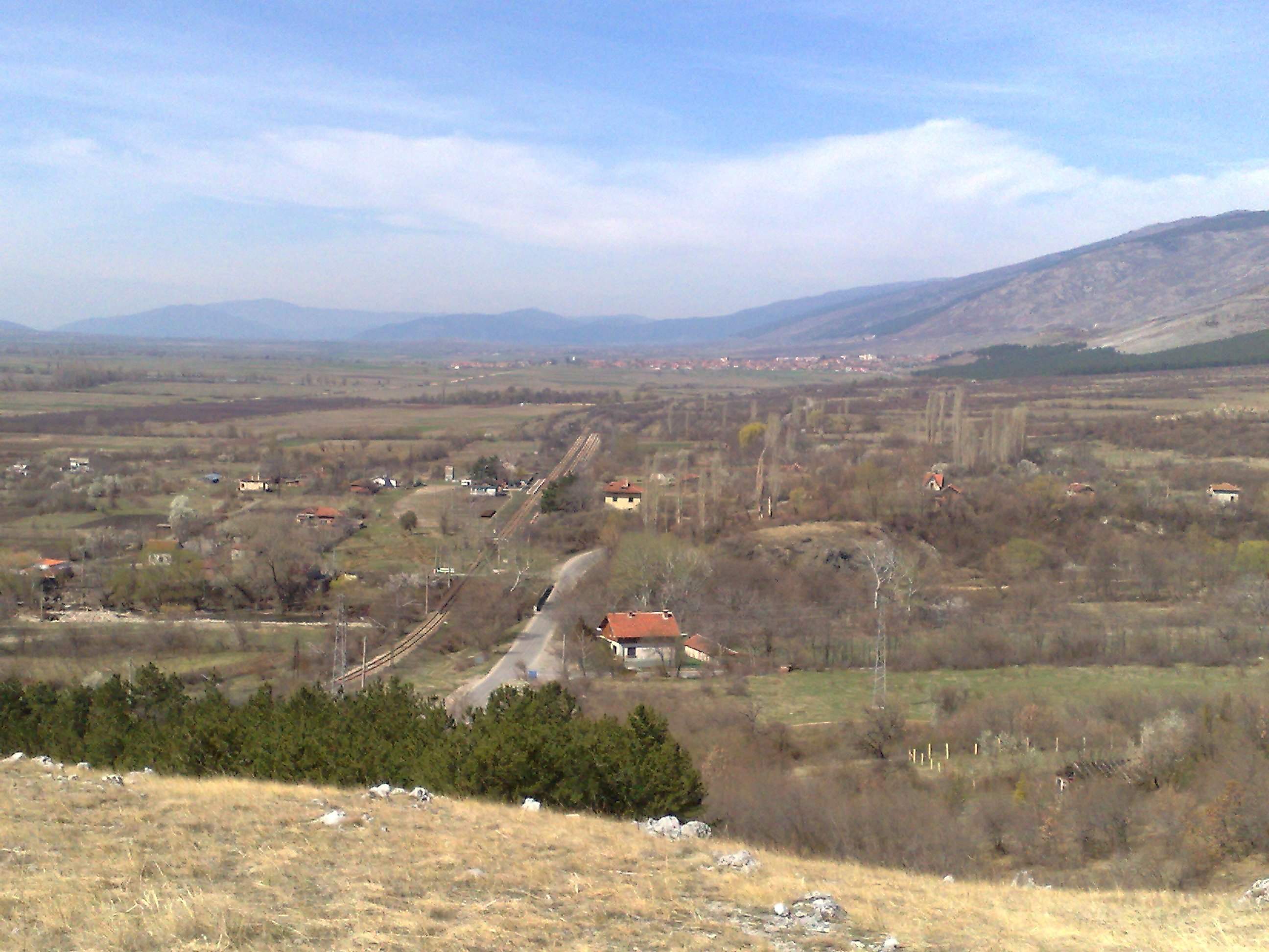 station Chumerna